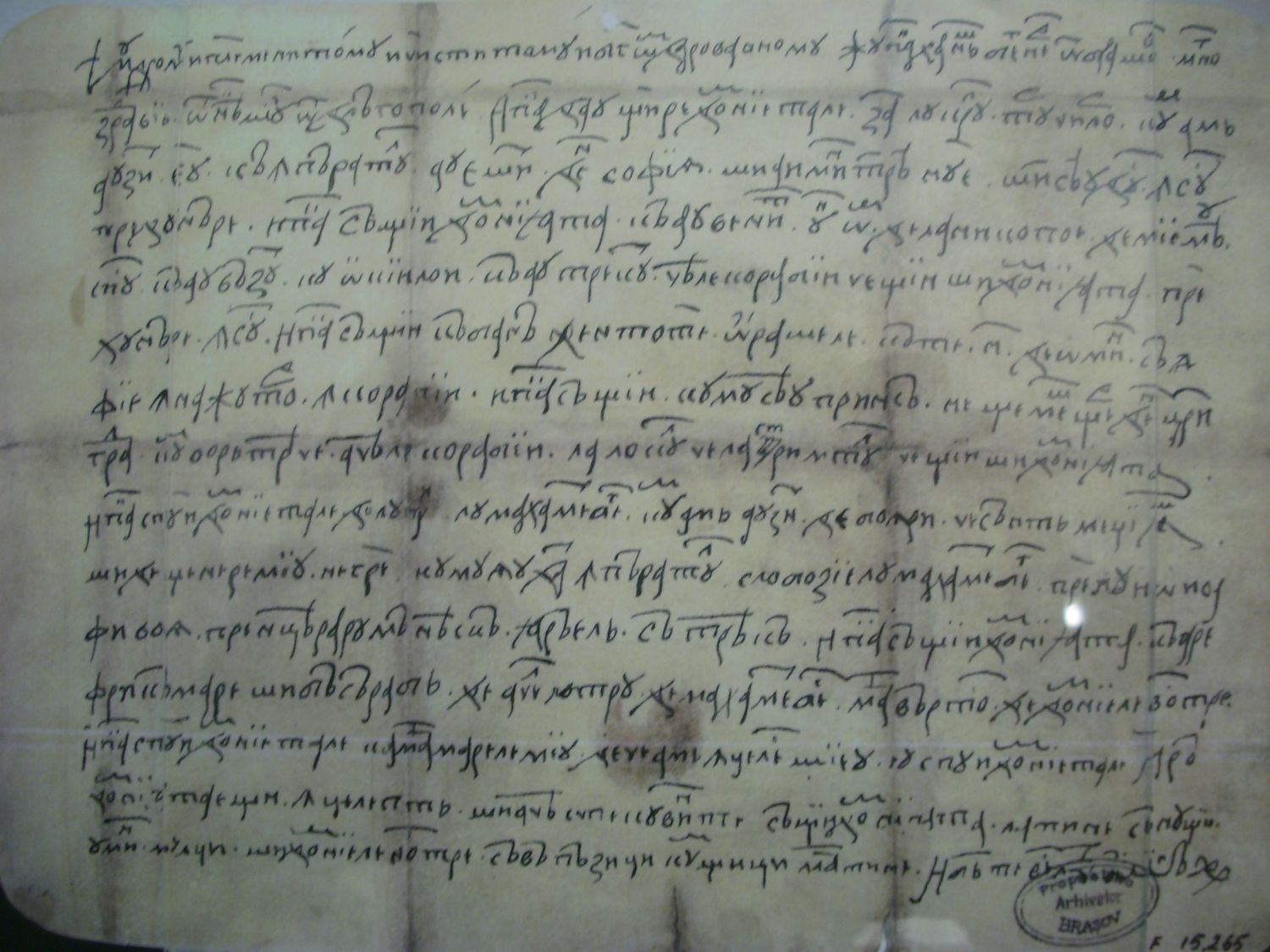 Neacșu's Letter, written in 1521, is the oldest surviving document available in Romanian. A transcription is available on Wikisource, at The letter of Neacșu of Câmpulung.